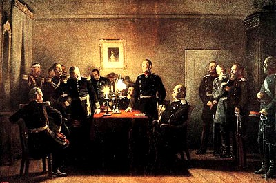 A depiction of the talks in the village of Donchery, Ardennes, France, on 2 September 1870, hours after the French Army of Châlons had run up a white flag over Sedan. Members of the French delegation pictured on the left: Supreme Commander Emmanuel Félix de Wimpffen (just standing up), General Auguste-Alexandre Ducrot, and other officers. Members of the delegation from the Prussian Coalition pictured on the right: Supreme Commander Helmuth von Moltke the Elder (standing at the table), Otto von Bismarck (sitting to Moltke's left), General Field Marshall Leonhard Graf von Blumenthal, General Field Marshall Alexander August Wilhelm von Pape, commanders of the 3rd- and the Maas-Army, and other officers.